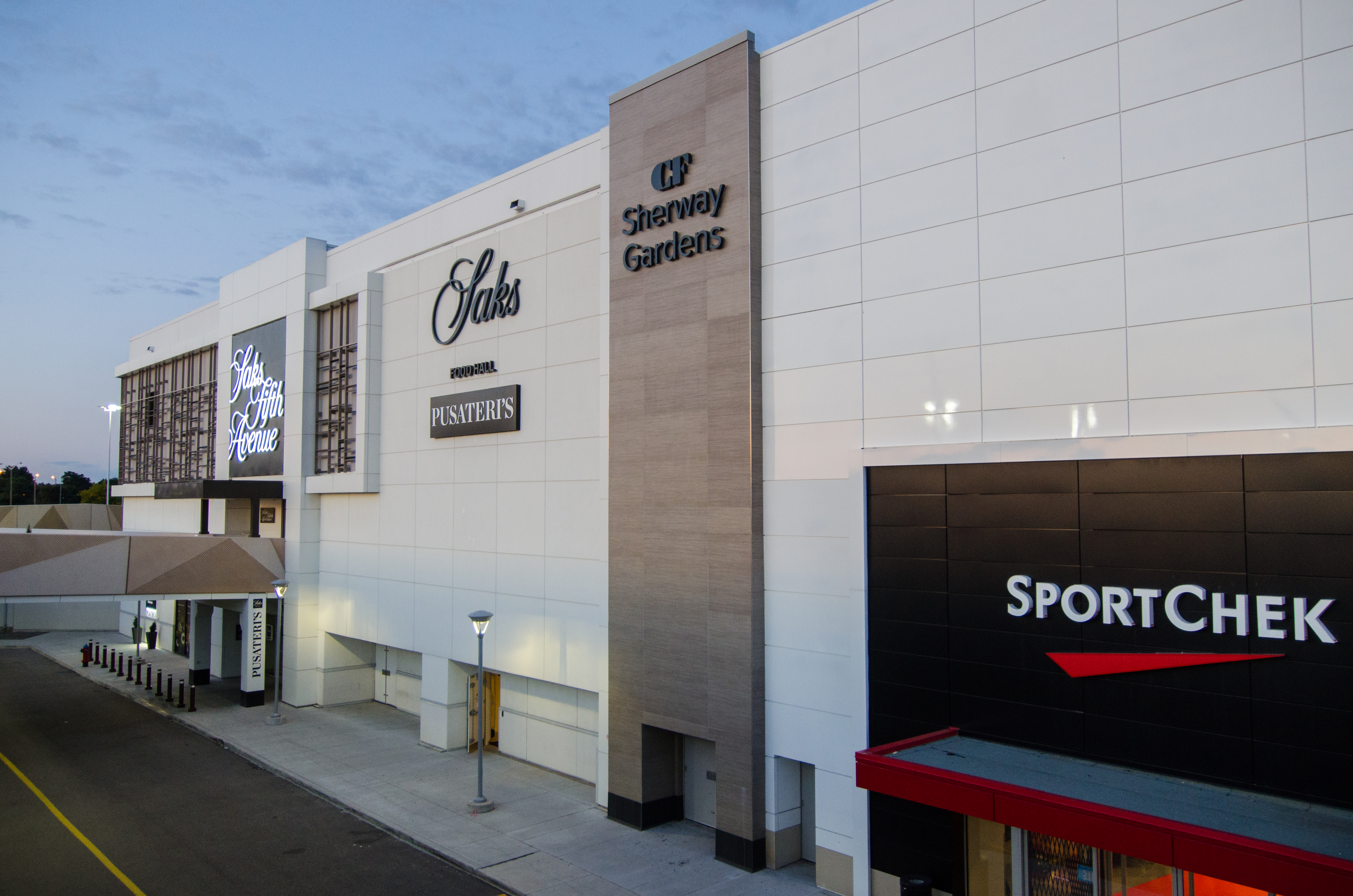 Seen in Mean Girls & The Sentinal.